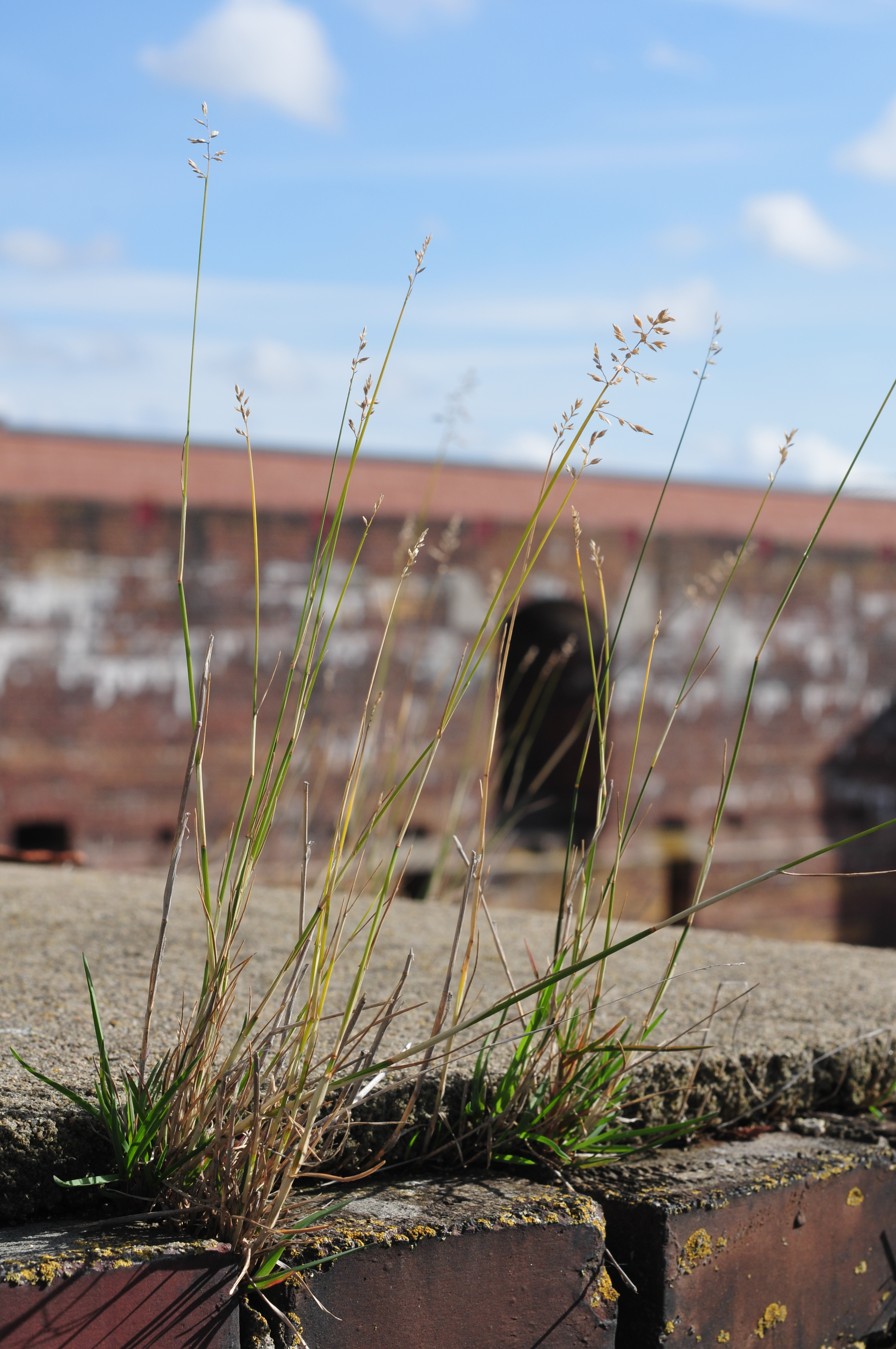 Kongreßhalle Nuremberg at the Reichsparteitagsgelände The making of this work was supported by Wikimedia Austria. For other files made with the support of Wikimedia Austria, please see the category Supported by Wikimedia Österreich.